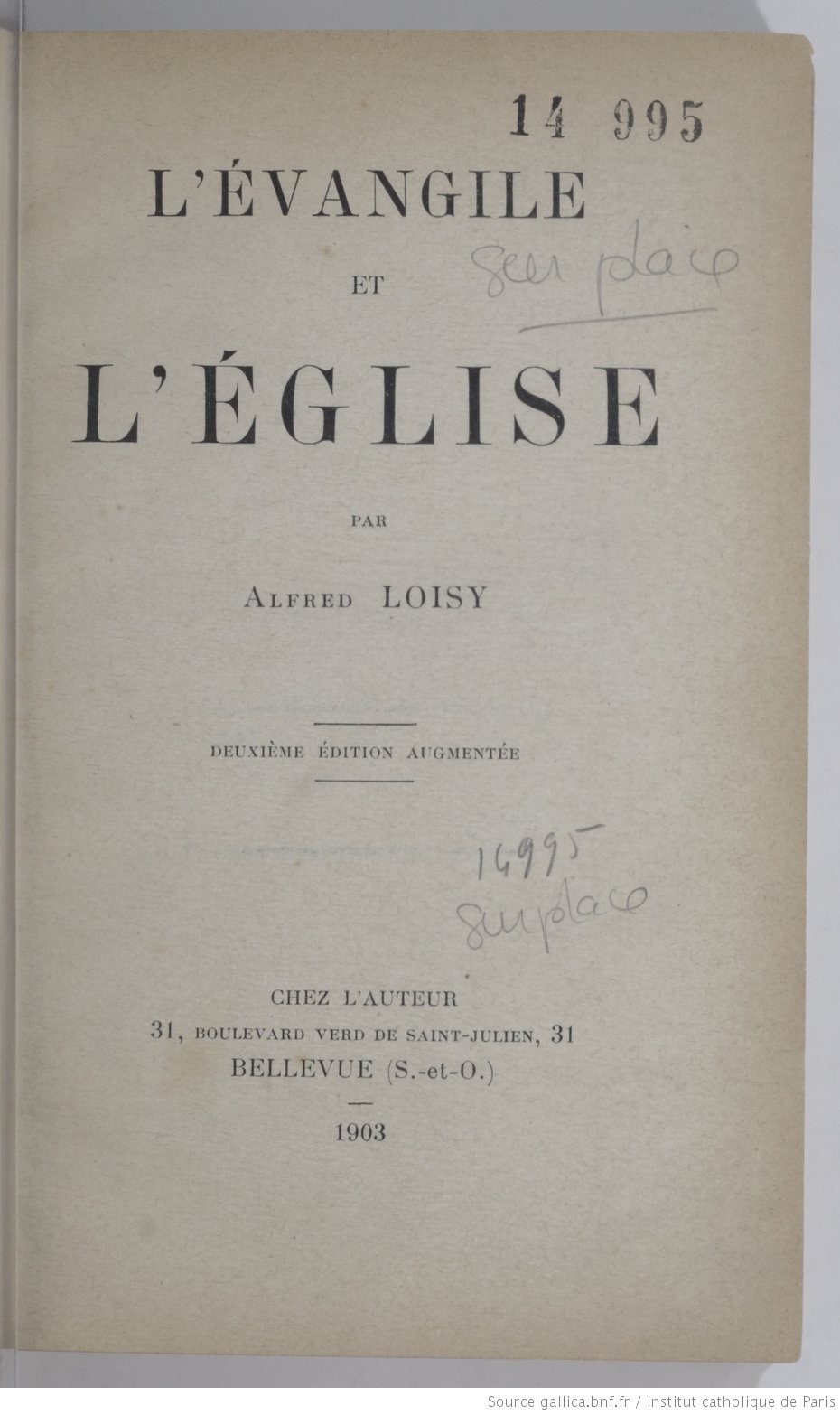 Cover page of L'Evangile et l'Eglise of Loisy (1903)